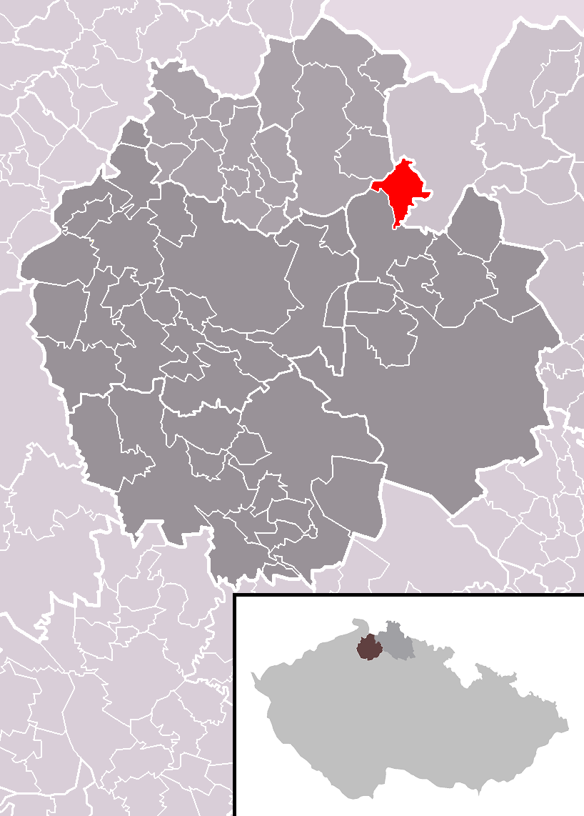 Location of Velký Valtinov municipality within Česká Lípa District and administrative area of Česká Lípa as a Municipality with Extended Competence.